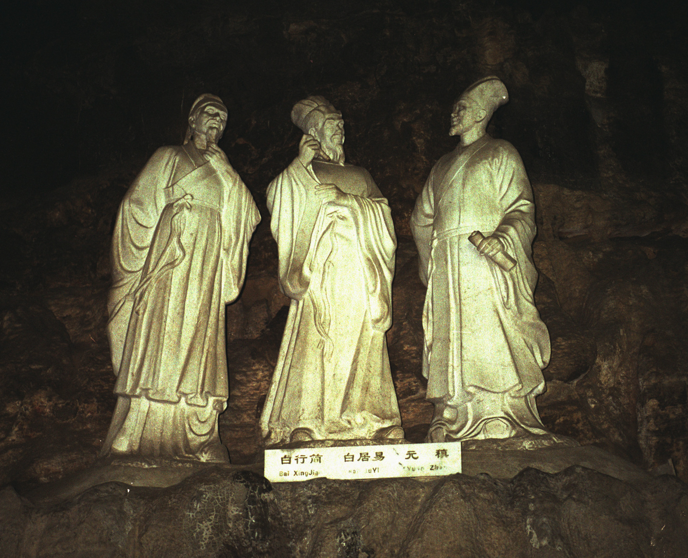 Three poets of Sanyou Cave, Yichang